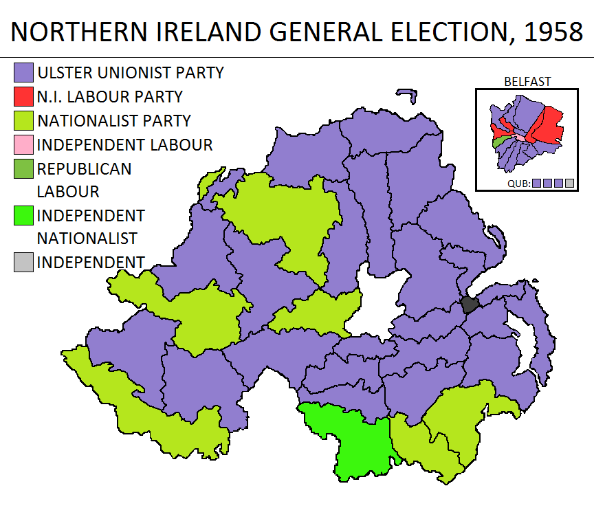 Map showing result of 1958 Northern Ireland general election.